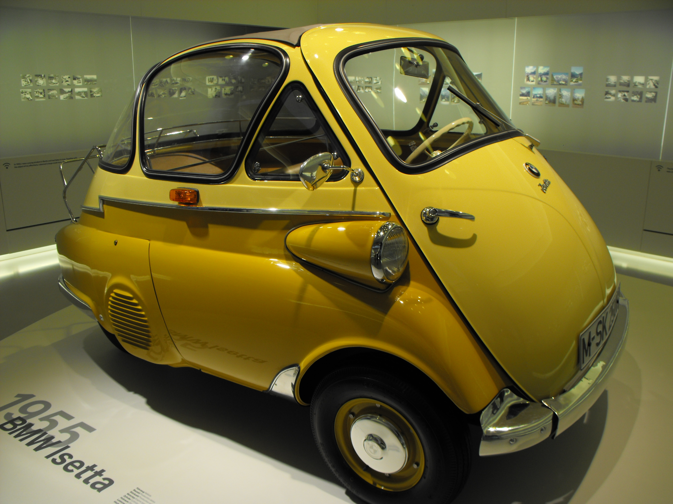 BMW Isetta, picture taken in BMW Museum, Munchen, Germany.